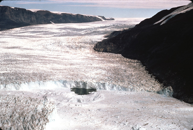 A photograph of Rinks Glacier in Greenland. Taken by the US Coastguard